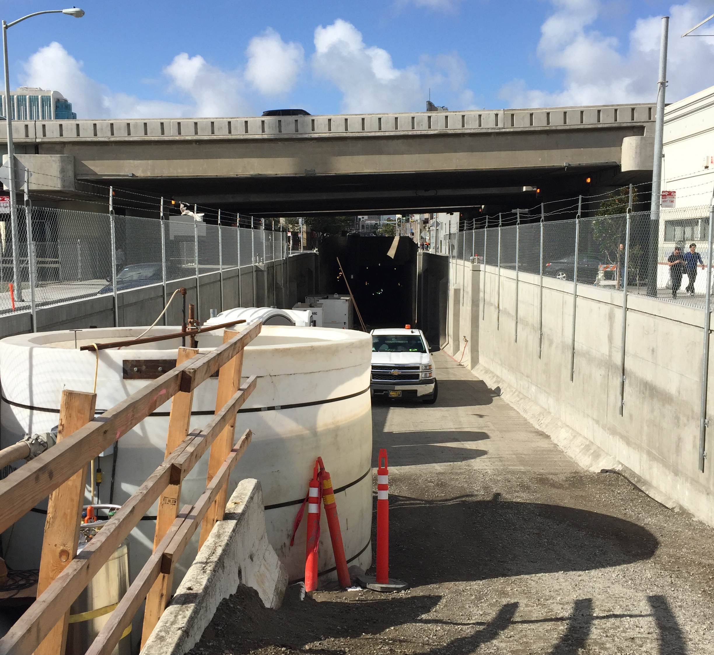 T Third portal under construction under the Bay Bridge approach